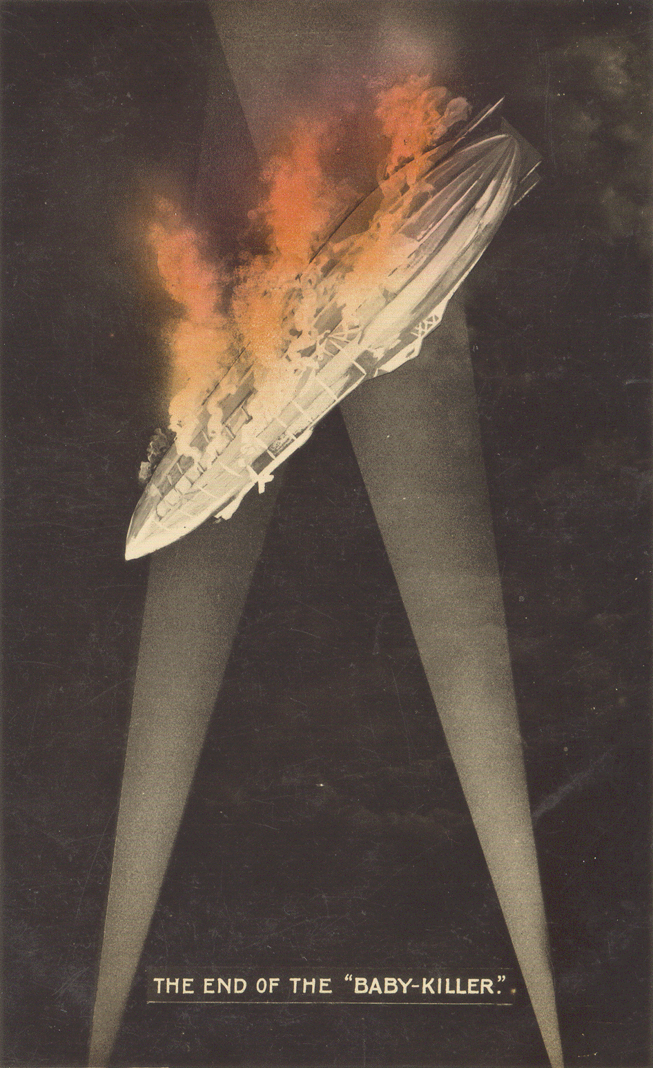 British propaganda postcard. Text reads: "The End of the 'Baby-Killer'", depicting the demise of Schütte-Lanz SL 11 over Cuffley: shot down by Lieutenant Leefe-Robinson on 3 September 1916 (awarded the VC for this action)